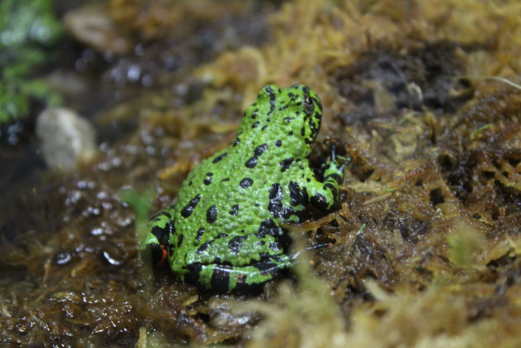 무당개구리